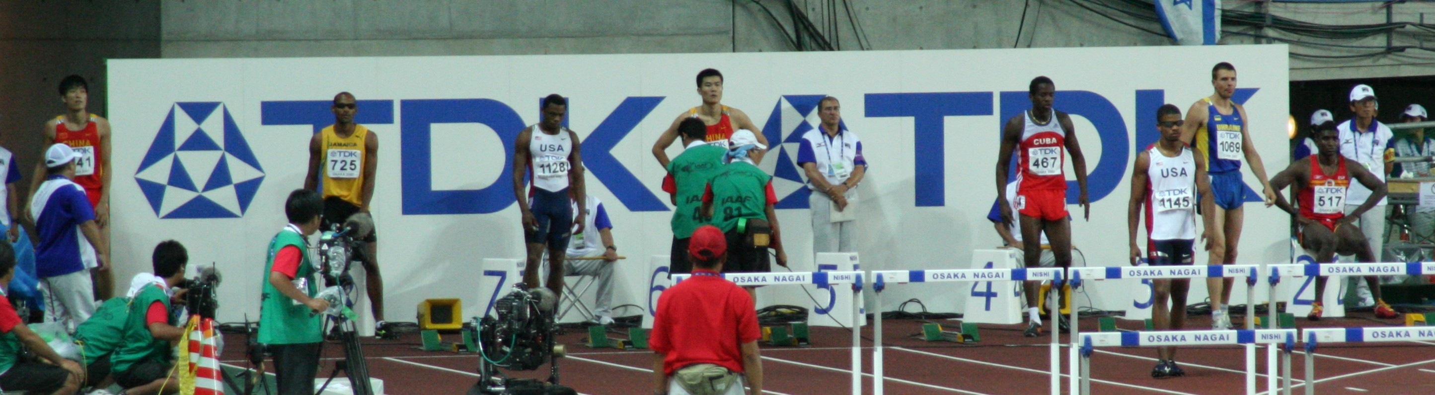 World Athletics Championships 2007 in Osaka - Participants in the men*s 110 metres hurdles final before the start of the race: Xiang Liu, Maurice Wignall, David Payne, Shi Dongpeng, Terrence Trammell, Dayron Robles, Serhiy Demydyuk, Jackson Quiñónez